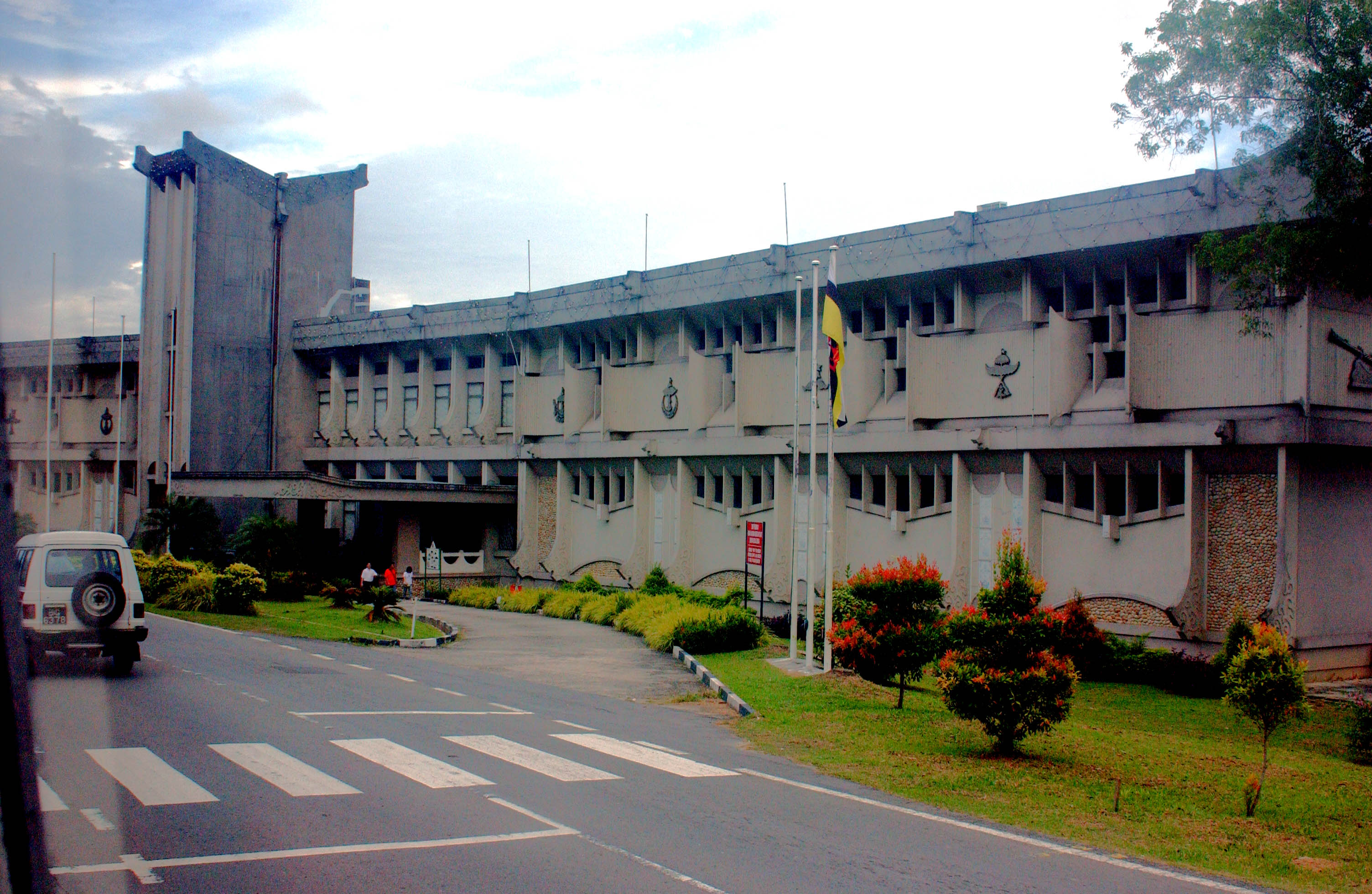 BRUNEI MUSEUM LYING ALONG THE BRUNEI RIVER; UNFORTUNATELY NO CAMERAS ALLOWED INSIDE AMD THEY ACTUALLY PHYSICALLY REMOVE THEM FROM YOU.